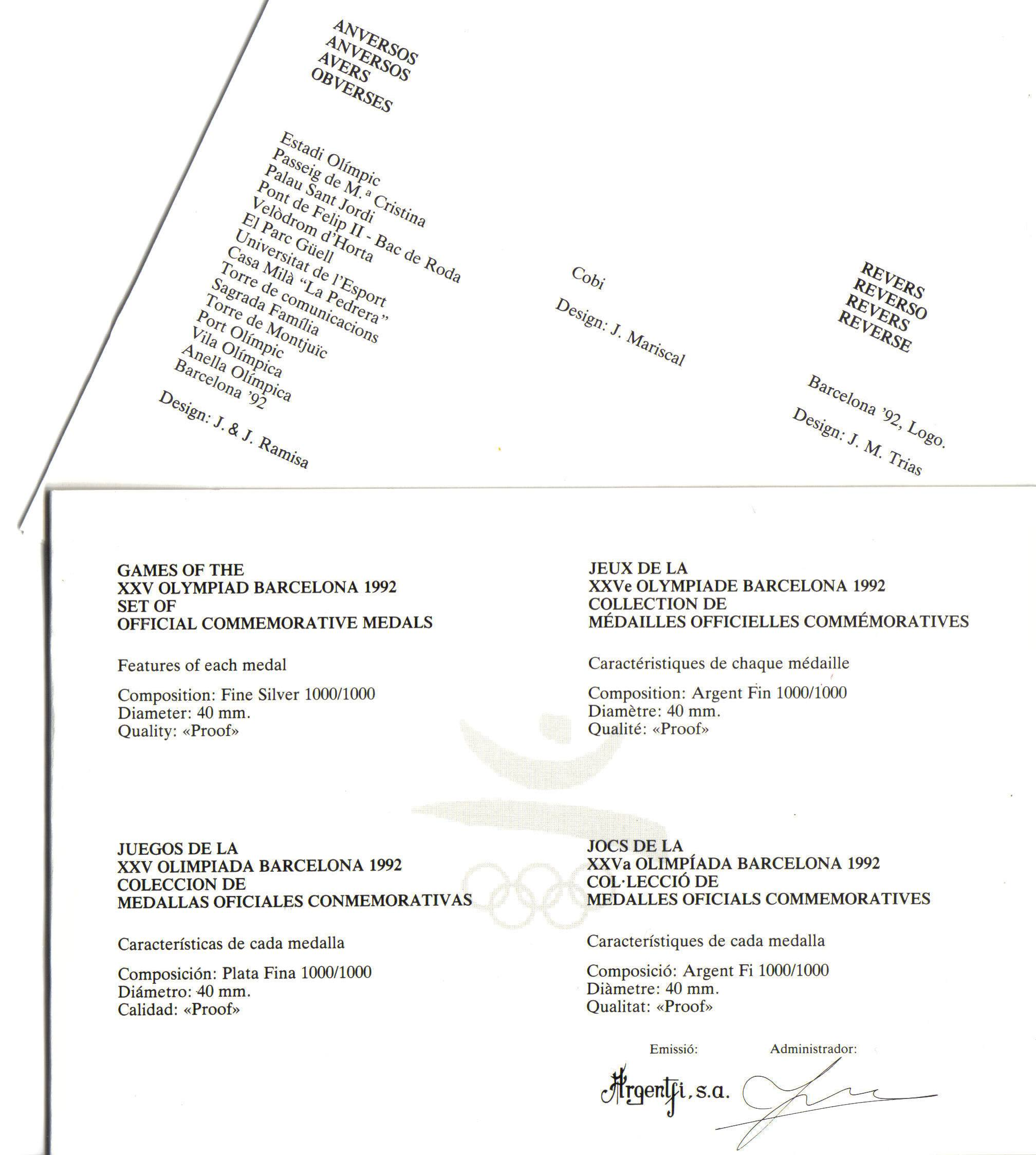 Barcelona'92 Olympic Games. Commemorative medals set warranty.